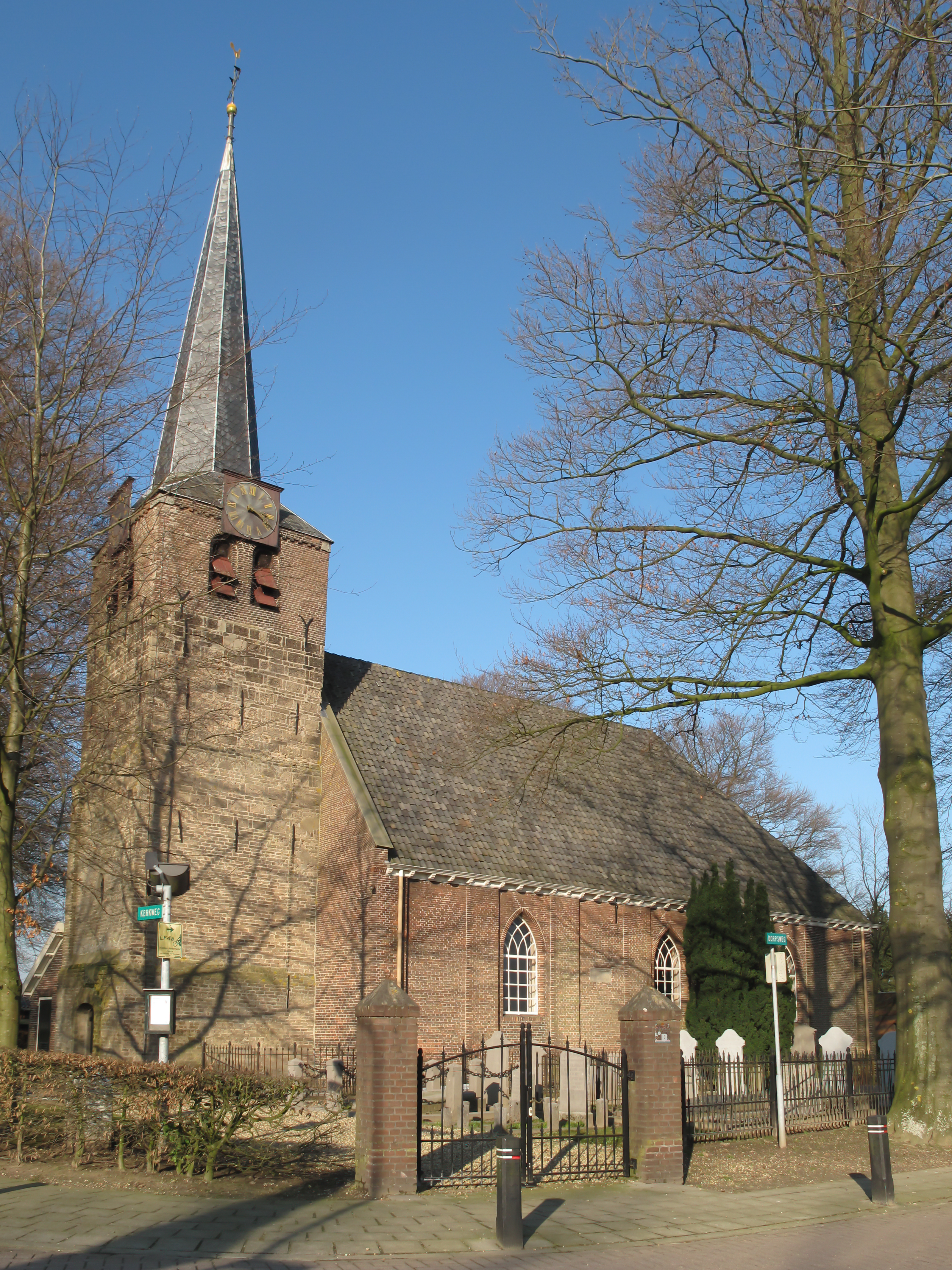 Spankeren, church